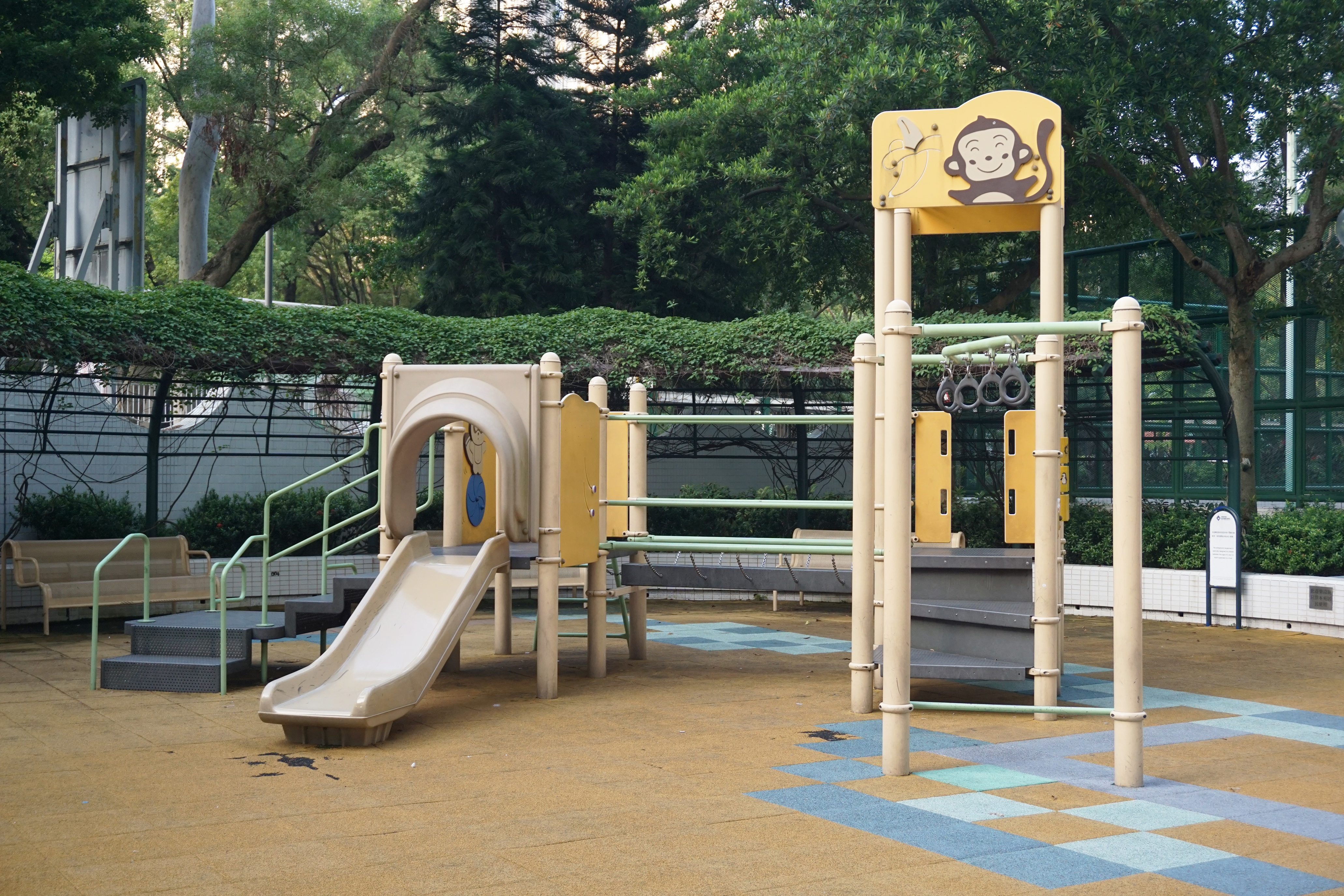 King Shing Court in Fanling, Hong Kong.